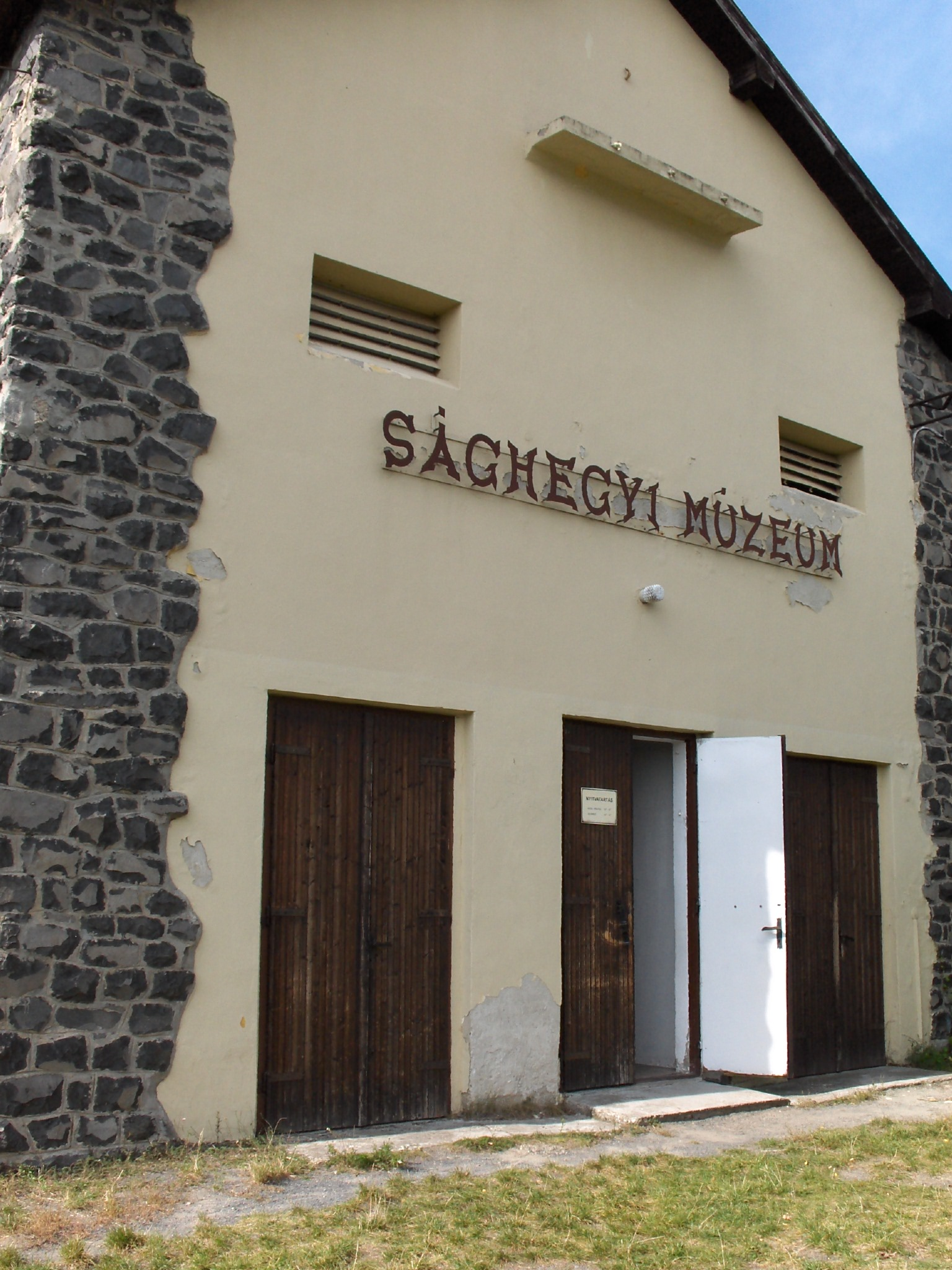 Museum of the Ság hill, Celldömölk, Hungary.